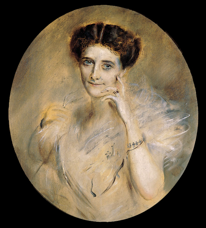 Mary Curzon, Baroness Curzon of Kedleston (Mary Victoria Leiter), 1st wife of George Nathaniel Curzon, 1st Marquess Curzon of Kedleston Portrait study by Franz von Lenbach, 1902 Gallery: Alte Nationalgalerie Berlin, A III 513